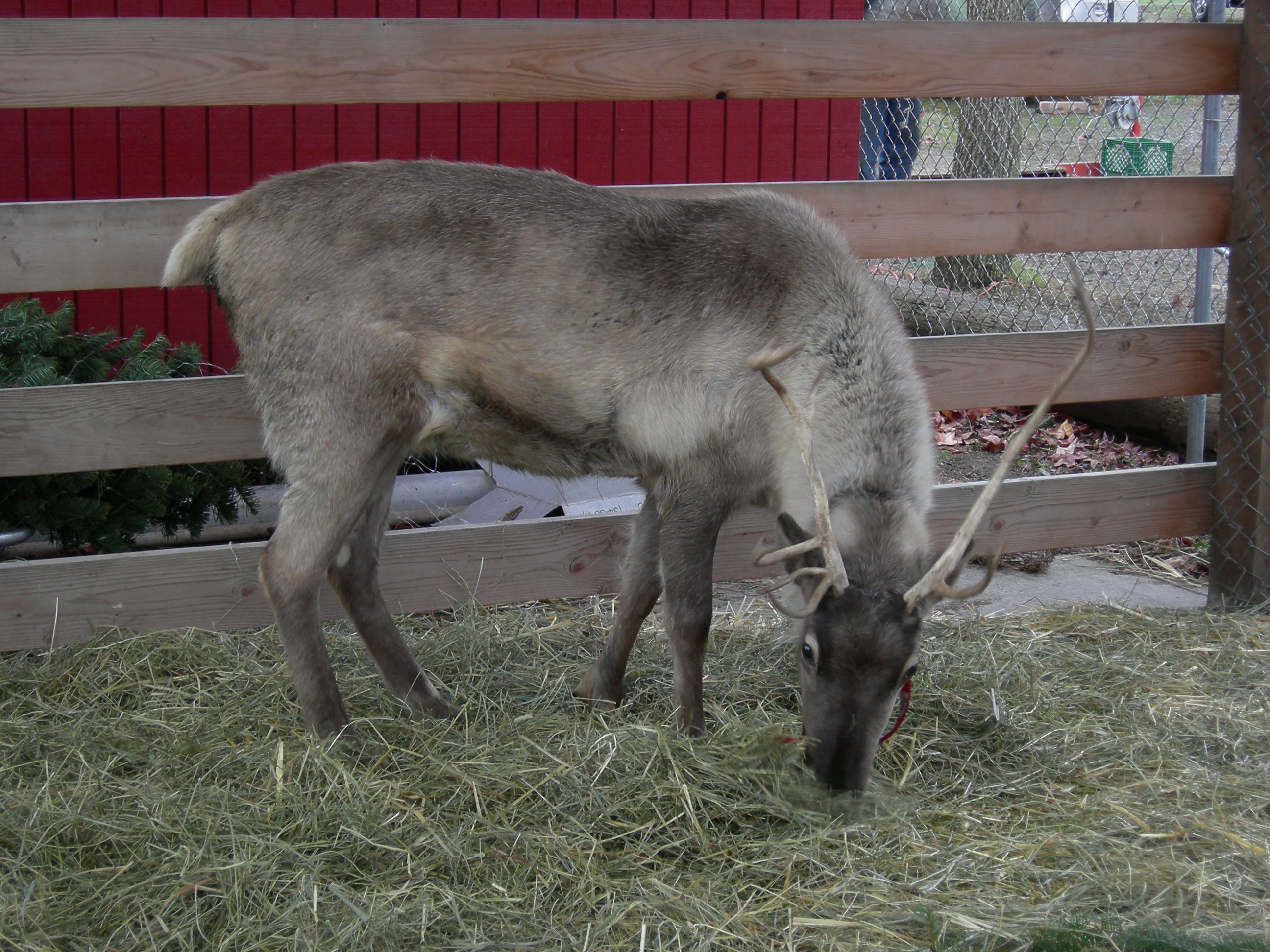 Reindeer, Hunter's Tree Farm lot in the 7700 block of 35th Avenue NE, Wedgwood, Seattle, Washington. The actual Hunter's Tree Farm is in the Skokomish Valley, but they retain this plot of land in the city to sell Christmas trees every year. (It's also used in the summer and early autumn to sell berries, but not for much else.) As part of their Christmas setup, they bring a penned reindeer, mainly for the children's entertainment.